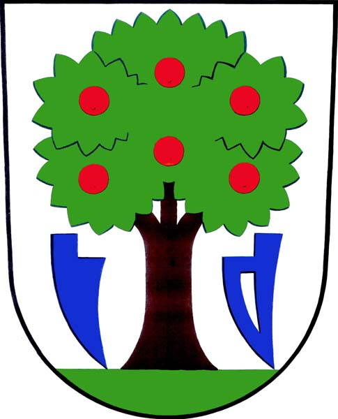 Municipal coat of arms of Luhačovice town, Zlín District, Czech Republic.